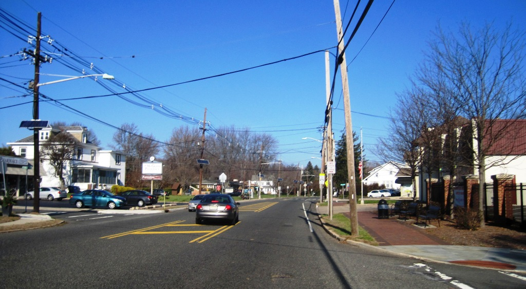 Photo of Eldridge Park, New Jersey, an unincorporated community within Lawrence Township, Mercer County. Photo taken along northbound U.S. Route 206 (Lawrence Road) at Eldridge Road.